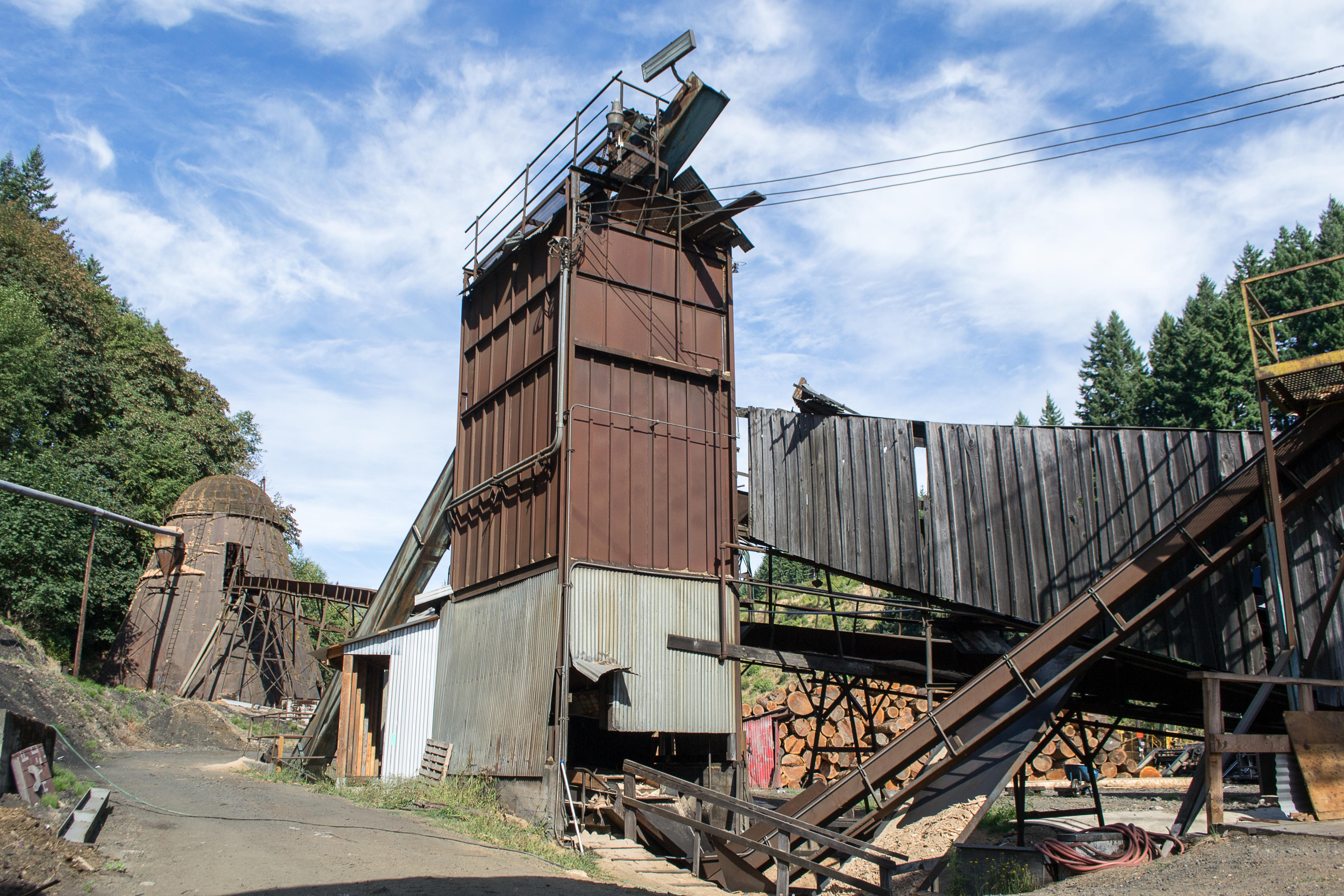 The Hull-Oakes Lumber Company in Dawson, Oregon